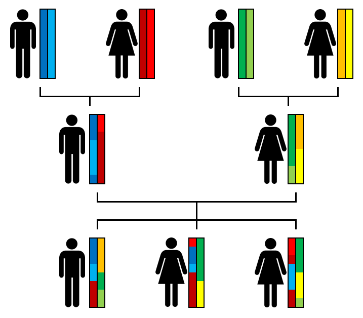 Schematic representation of the autosomal transmission from grandparents to three siblings.